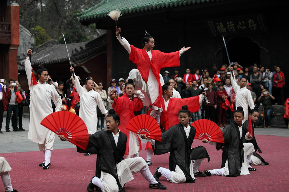 Wudang Co. 武當集團